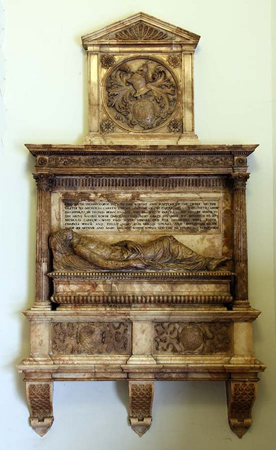 Monument circa 1560 to Thomas Lord Darcy (d.1537) and Sir Nicholas Carew (d.1539), St Botolph without Aldgate, London EC3. Inscription: "Here Lieth Thomas Lorde Darcy of the Northe and sumtyme of the Order of the Garter, Sir Nicholas Carrew Knight sumtyme of the Garder, and Lady Elizabeth Carrew, daughter to Sir Thomas Brian Knight, and Sir Arthur Darcy Knight Yonger sone to the above named Lorde Darcy, and Lady Mary Darcy his dere wif, daughter to Sir Nicholas Carrew, who had tenne sonnes and five daughters. Here lieth Charles Will[ia]m and Phillip, Mary and Ursully, Sonnes and daughters to the saide Sir Arthur and Mary his wif whose sowlls God take to his infinit mercy, Amen"[1]